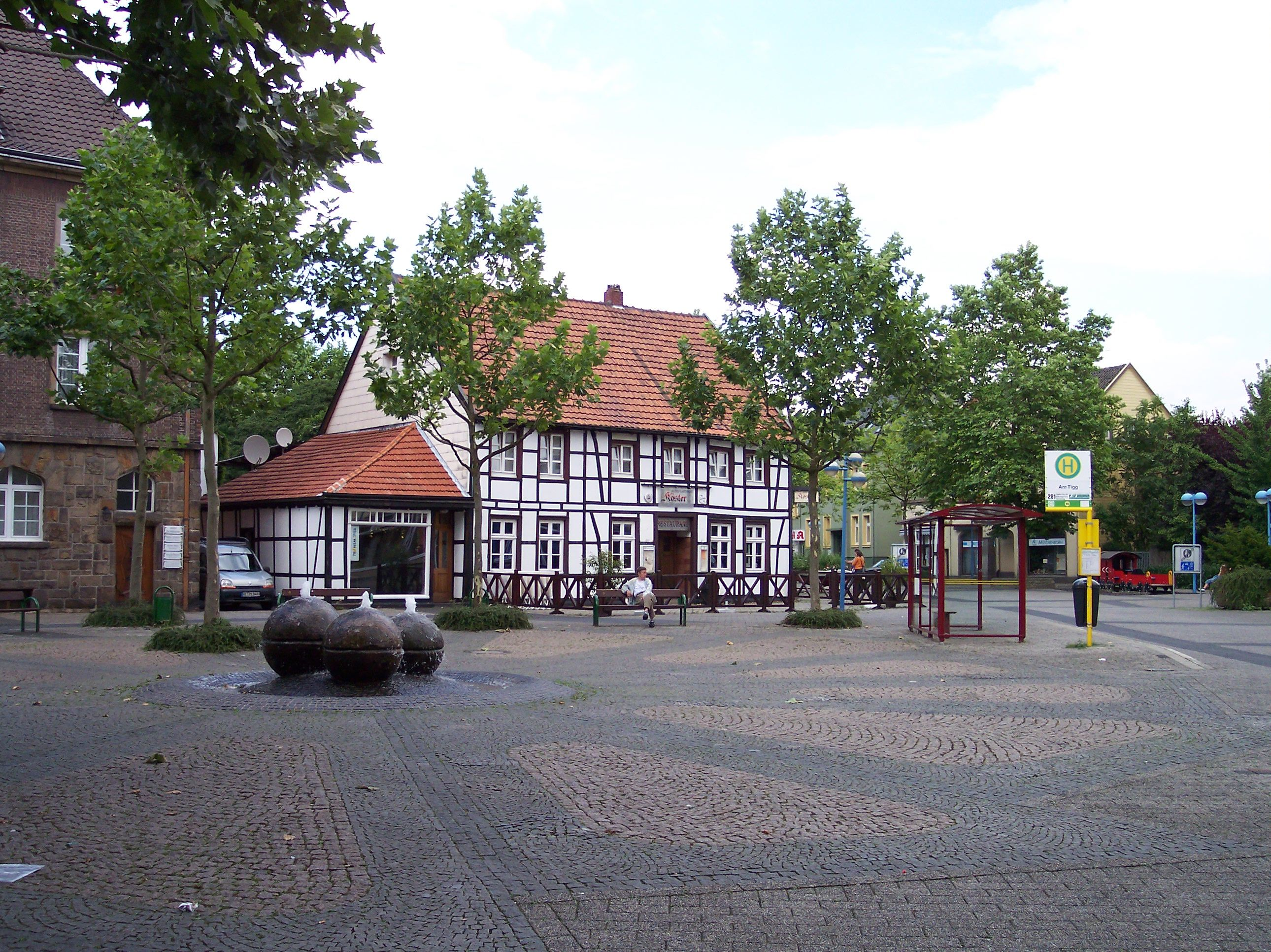 Datteln Alter Marktplatz Tigg